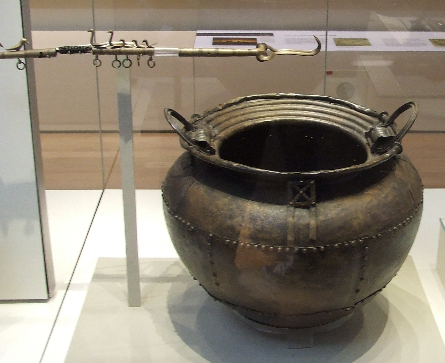 A Bronze Age sheet bronze cauldron and flesh-hook in the British Museum